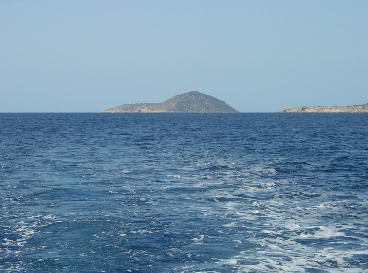 The greek Island of Strongili near Kastellorizo seen from Northeast